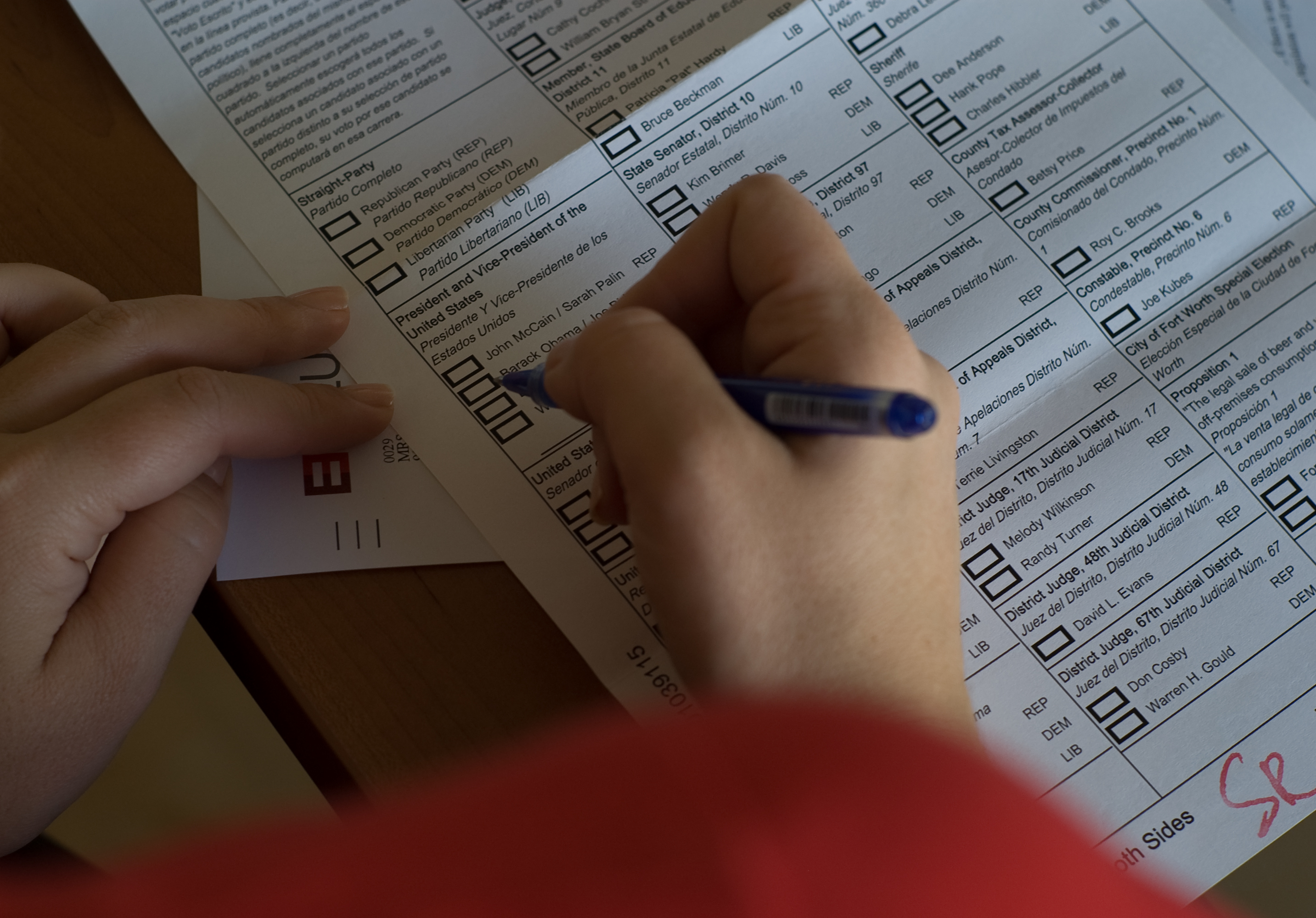 Looking over the shoulder of a US voter (Texas ballot)